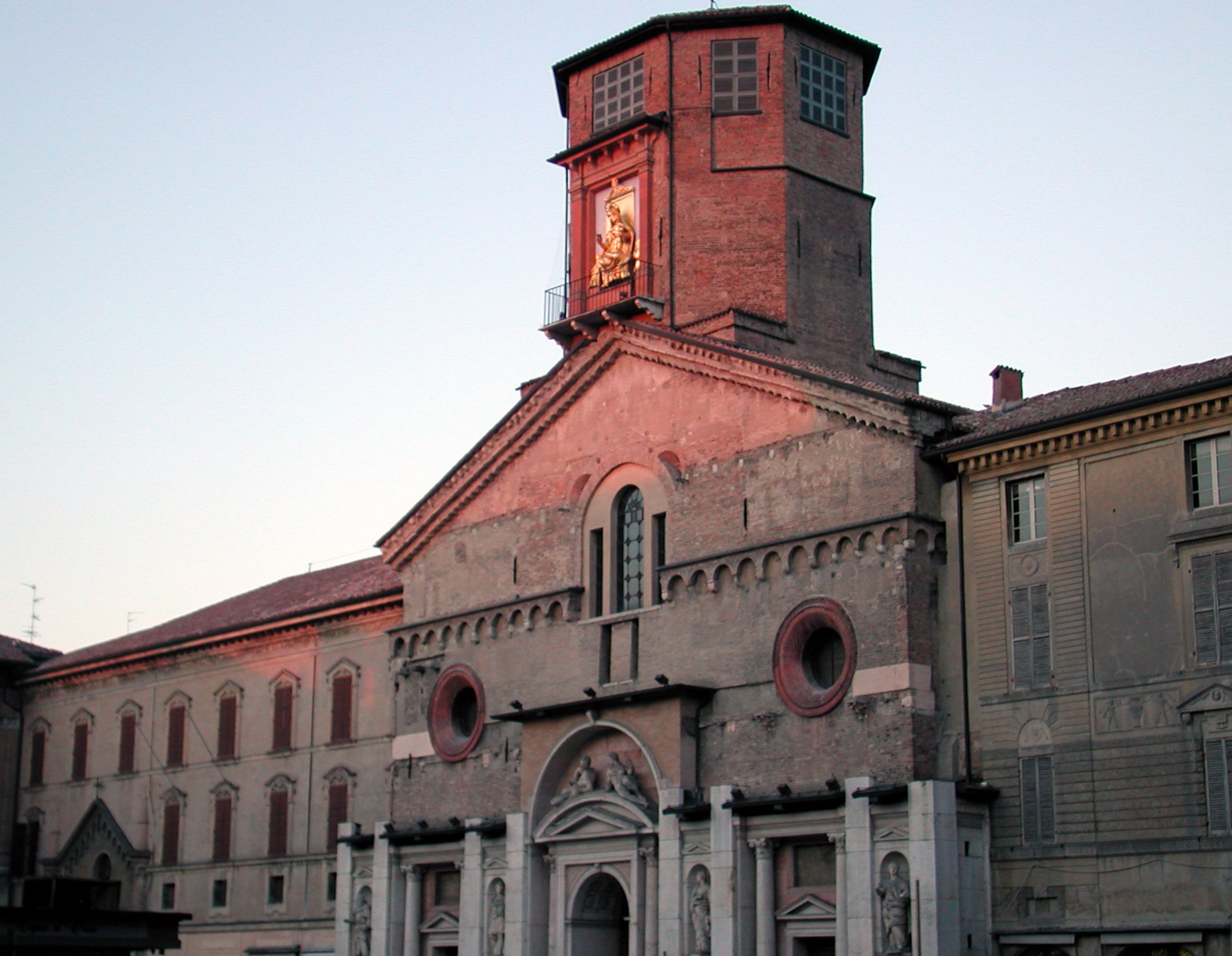 Reggio Emilia, Italy, facciata del duomo Facade of the cathedral